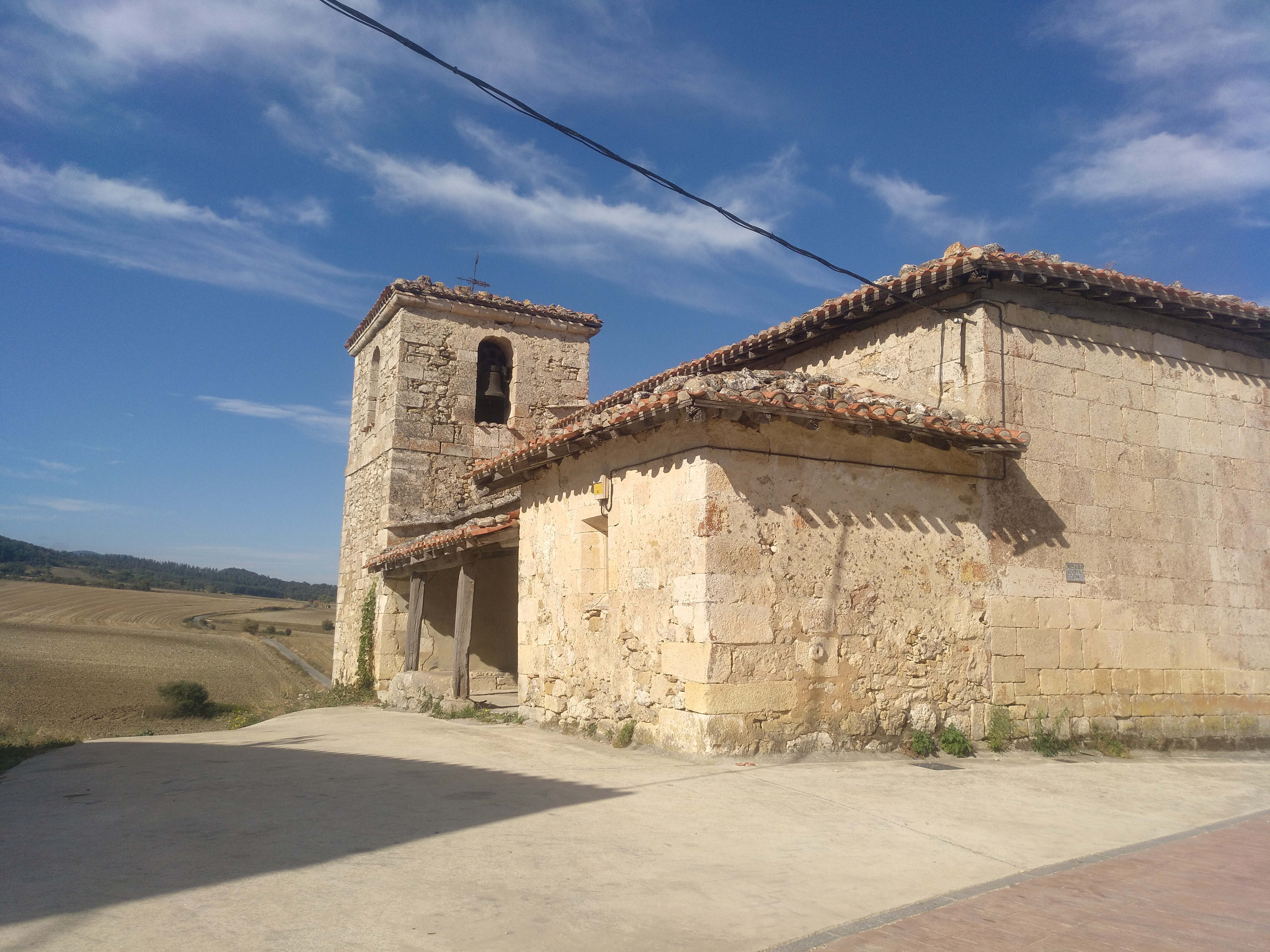 Church of Egileor, in Agurain municipality